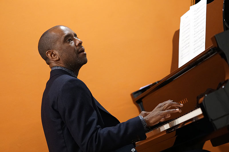 Danny Grissett in Aarhus 2018, performing with Anne Mette Iversens Quartet.